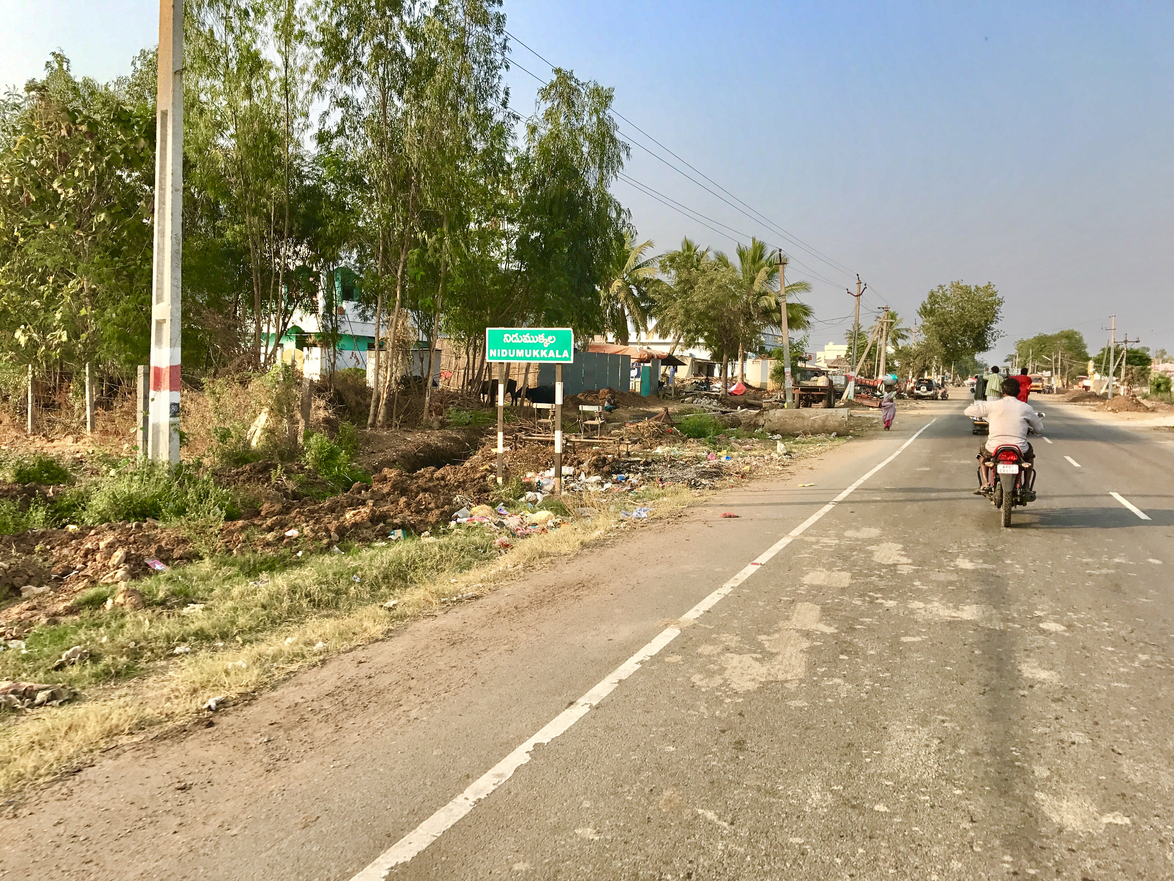 Nidumukkala Center